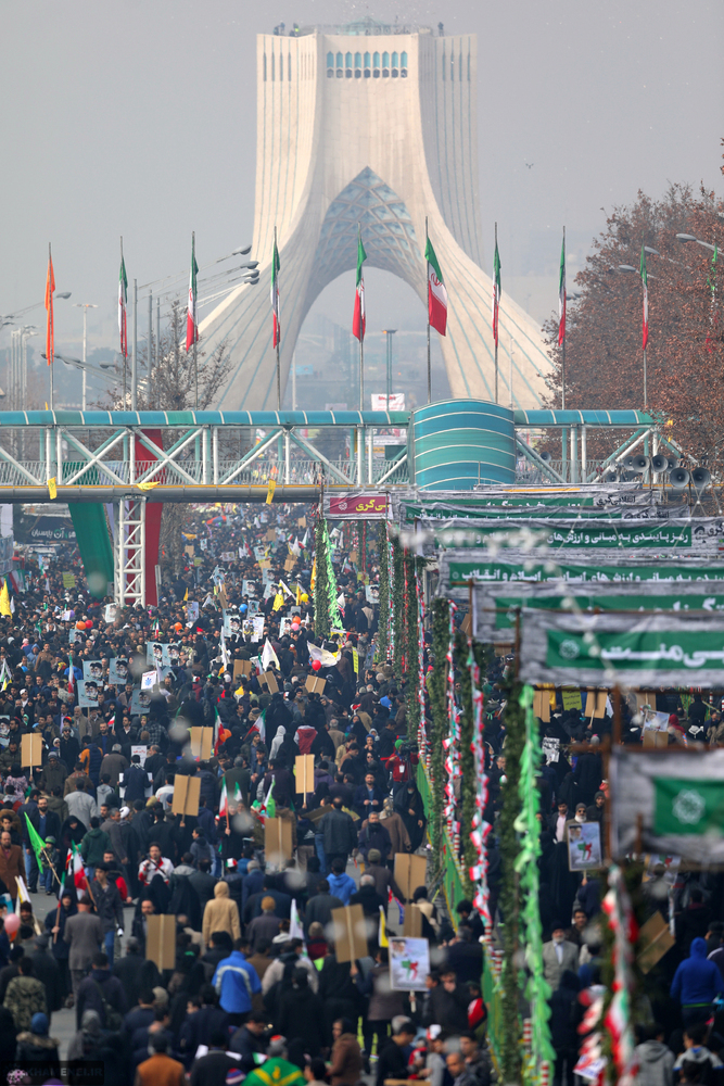 Anniversary of 1979 Revolution in Tehran, Iran